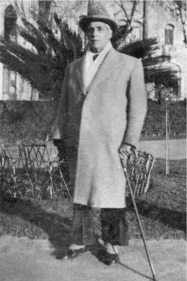 This photograph depicts Aristides de Sousa Mendes, Holocaust rescuer, in Cabanas do Viriato, Portugal, in 1950.